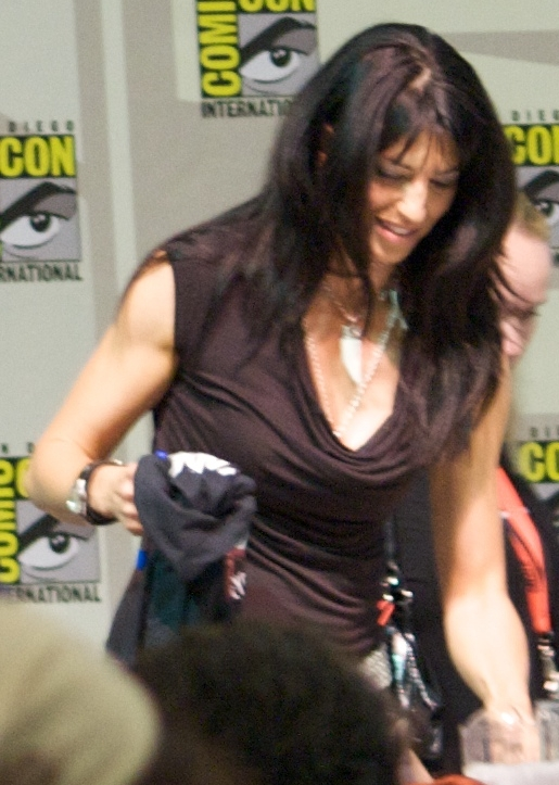 Claudia Black. Cropped from the image titled "End of the Farscape 10th anniversary panel. Ben and Claudia getting ready to leave." At the 2009 San Diego Comic-Con International.